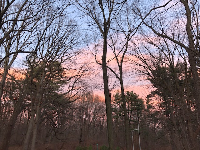 A sunset in Forest Park, in Queens, New York, during the Winter